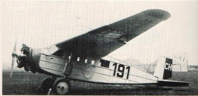 Ad Astra Aero S.A. : BFW-M-18-d (CH 191) , powered by an Armstrong-Siddeley Lynx engine.